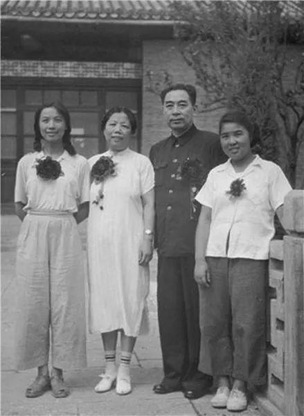 Family portrait of Premier Zhou Enlai. From left to right: Sun Weishi, Deng Yingchao, Zhou Enlai, Sun Weishi’s sister Sun Xinshi.